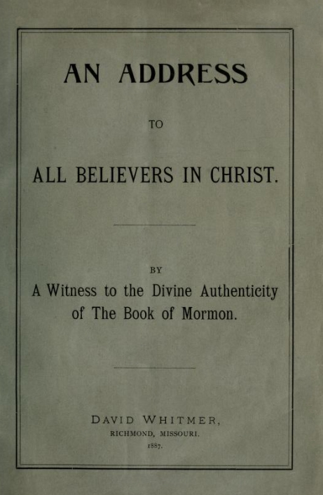 An Address to All Believers in Christ by David Whitmer - 1887.